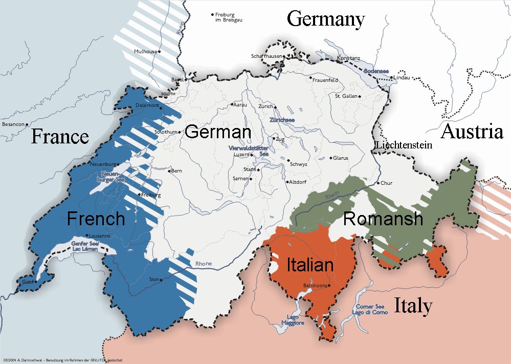 English-language version of KARTE_schweiz_sprachen.png